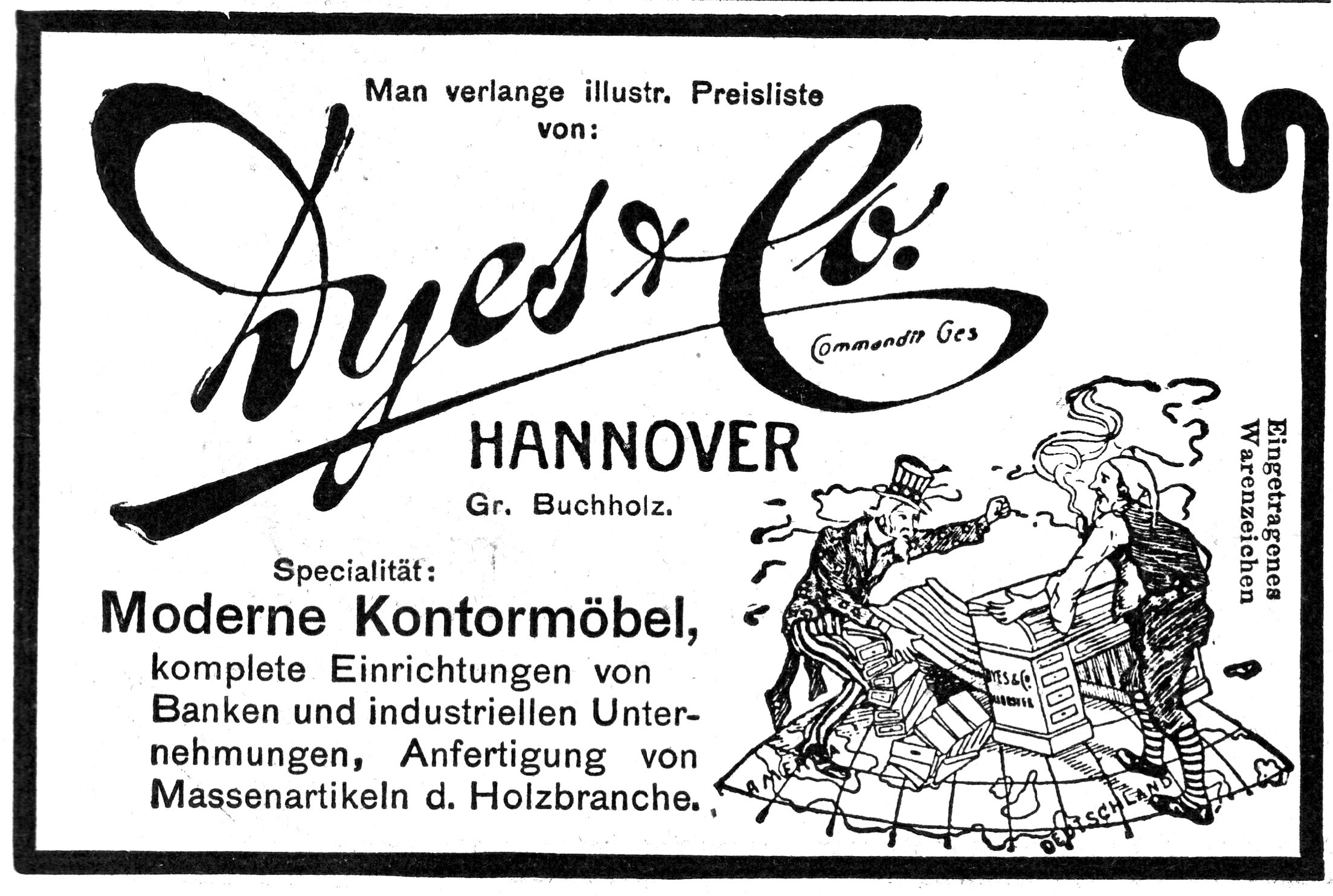 Advertisement of Dyes